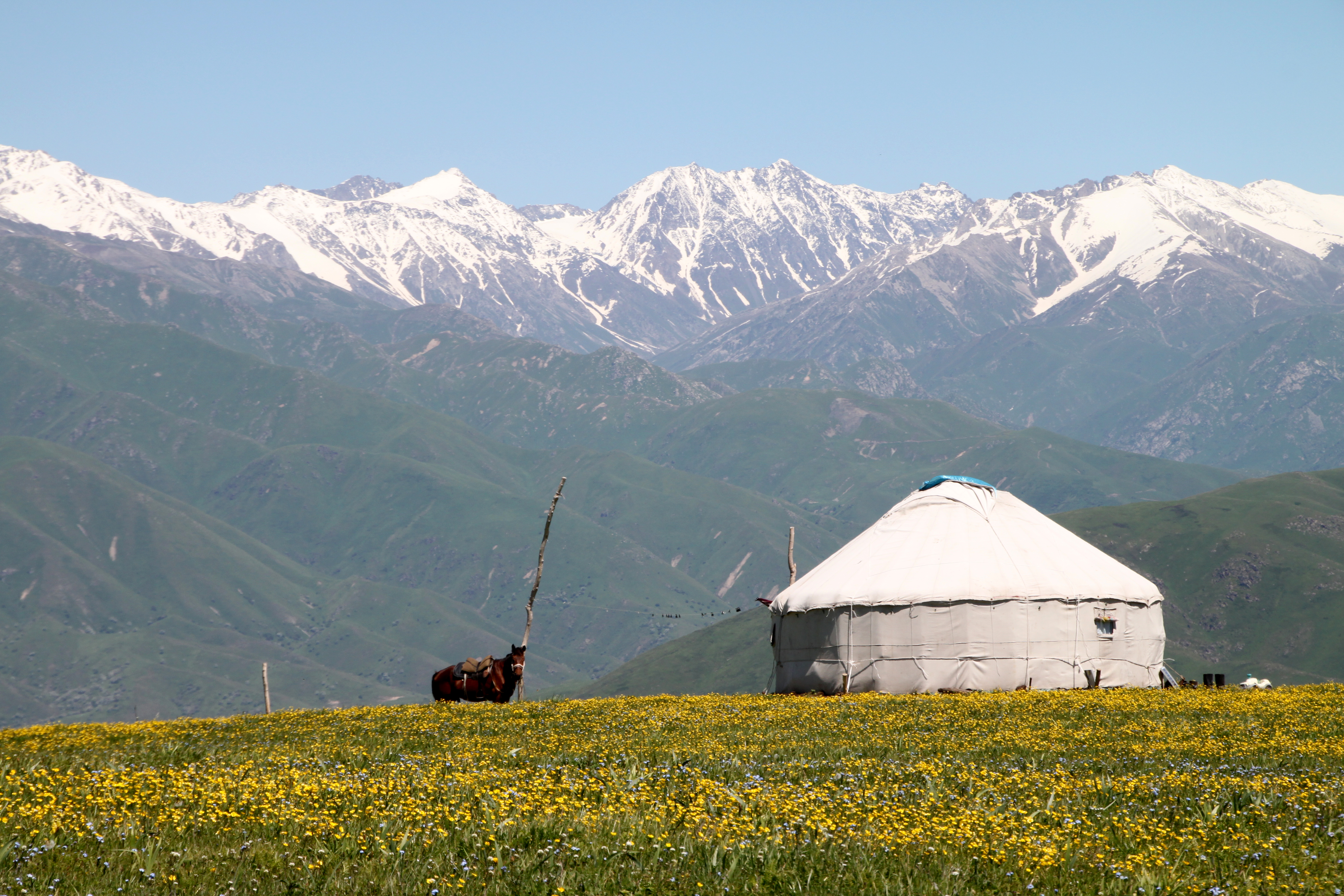 Yurt in the mountains surrounding Tekeli, Almaty province, Kazakhstan